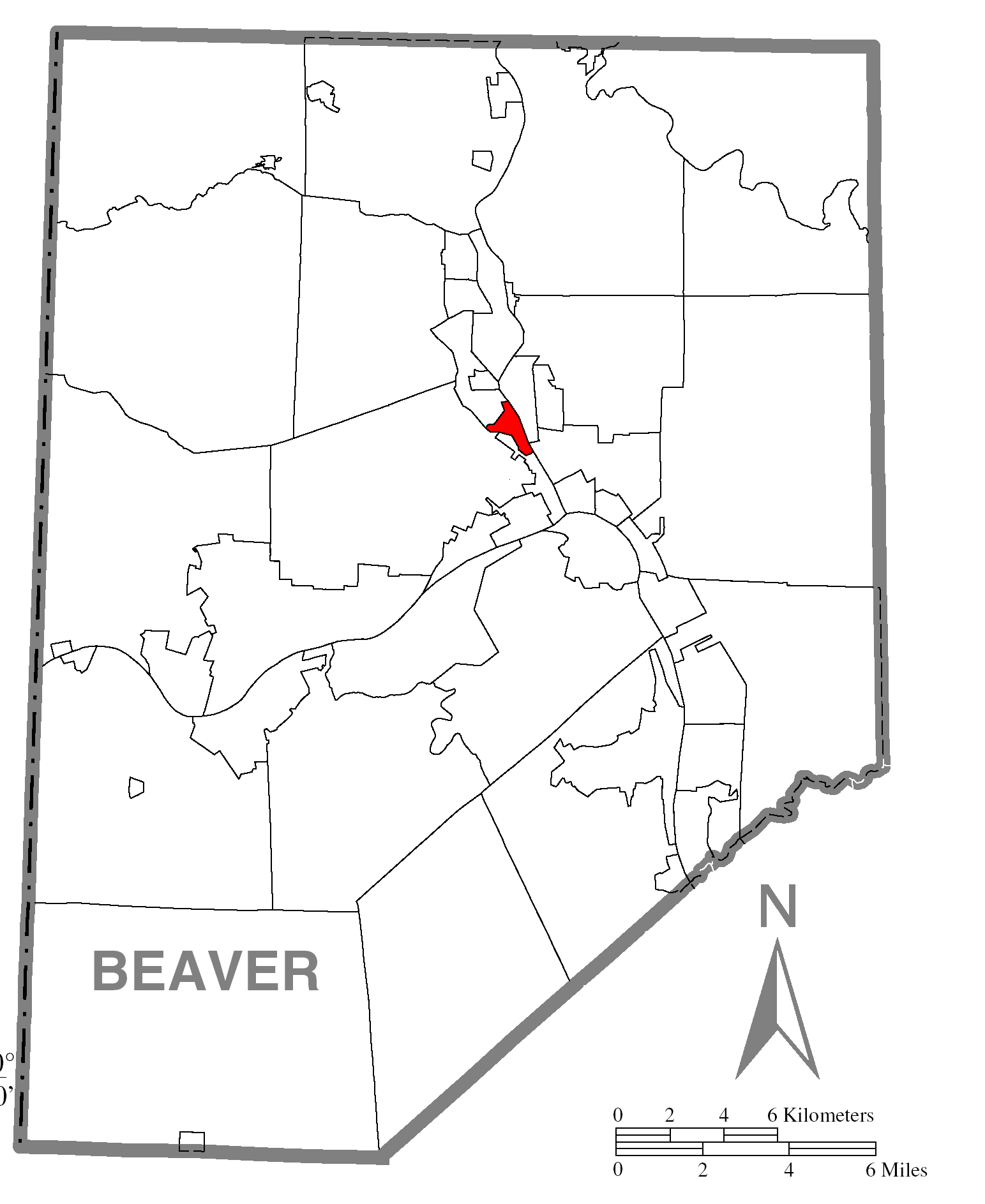 A map of Beaver County showing Fallston, Pennsylvania (alternate) highlighted on the map.